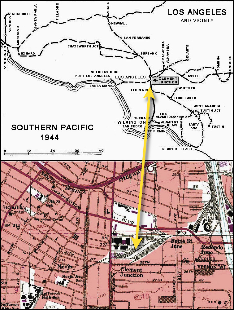 Southern Pacific Railroad lines in the vicinity of Los Angeles, CA, in 1944 showing the location of Clement Junction, the original 1879 terminus of the San Francisco and Sacramento to Los Angeles SPRR routes. Composite digital illustration by uploader from self created and PD elements. Licensing SP (Upper) Map & Illustration as a whole USGS (Lower) Map